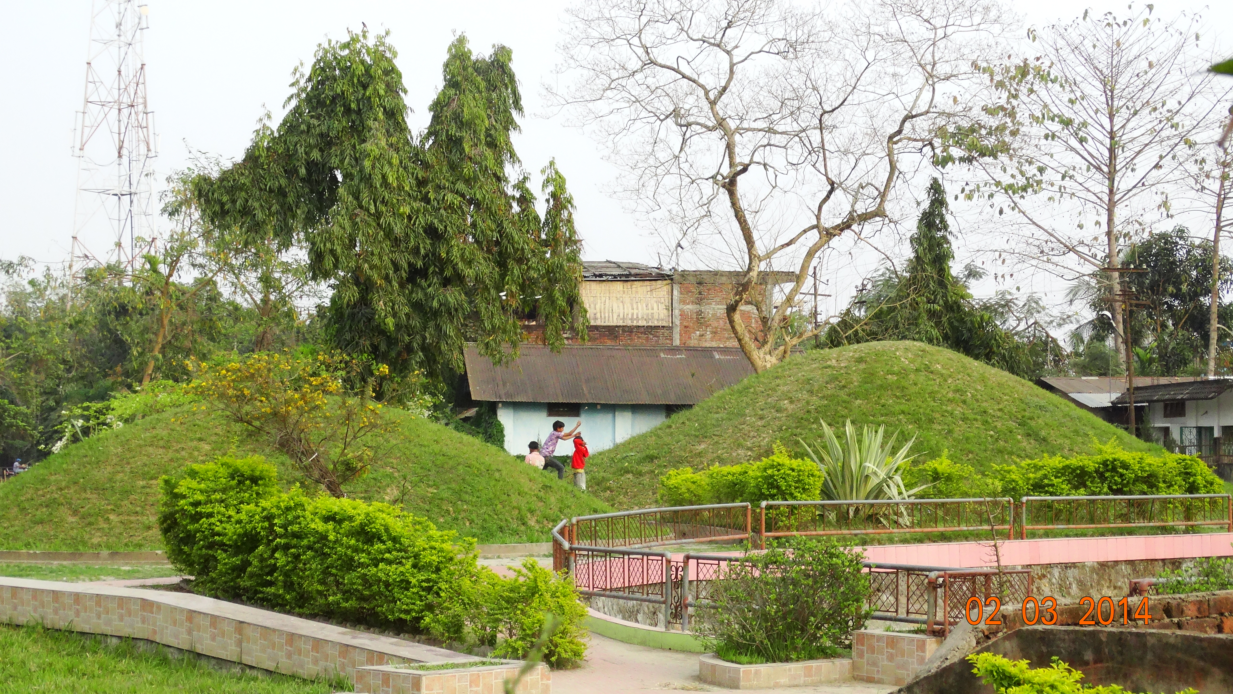 শেষ আহোম ৰজা স্বৰ্গদেউ পুৰন্দৰ সিংহৰ মৈদাম যোৰহাটৰ ৰজামৈদামত, Maidam(burial mound) of the last Ahom King Purandar Singha at Rajamaidam, Jorhat District.